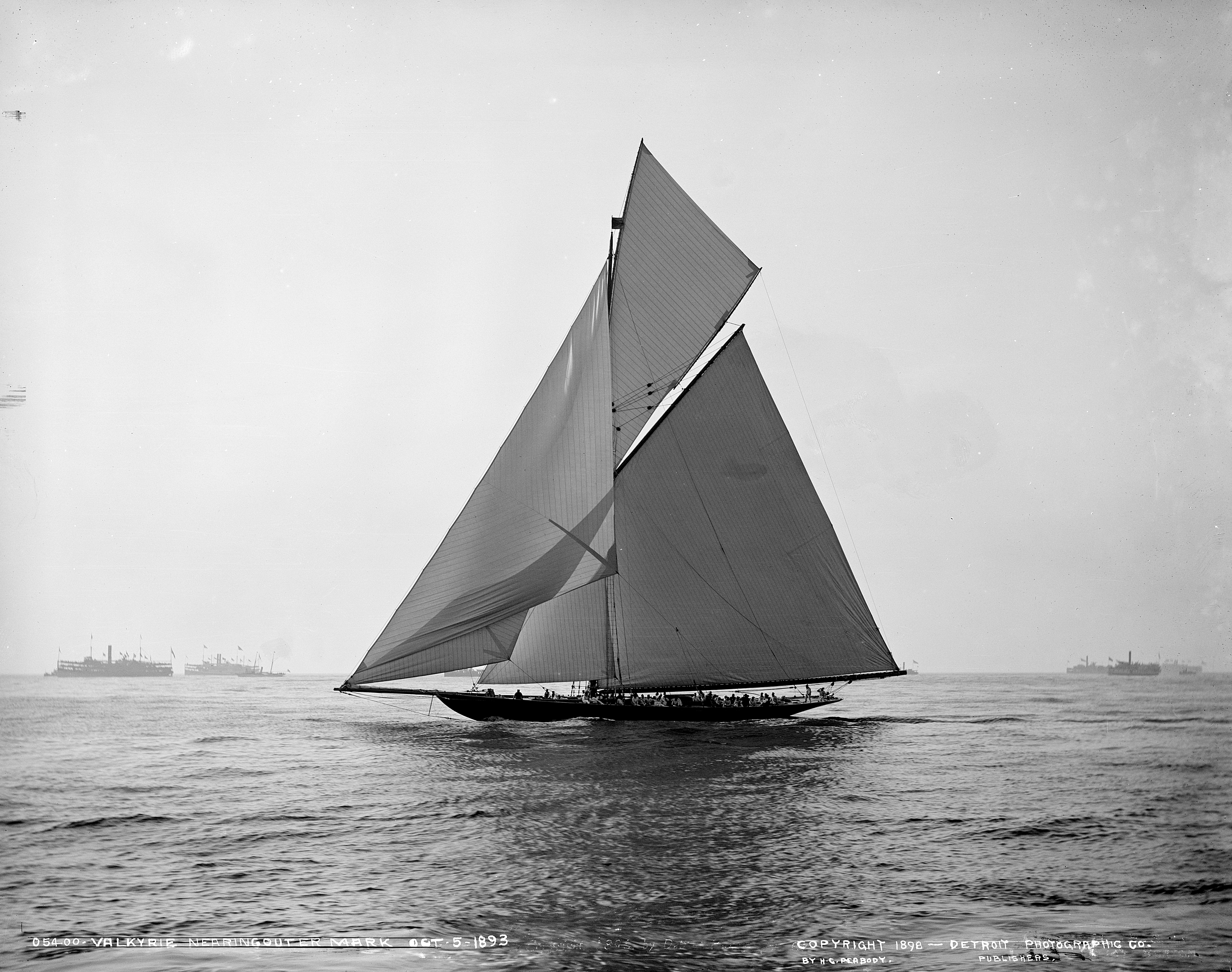 Lord Dunraven's cutter Valkyrie II (George Lennox Watson design, 1893). She was the Royal Yacht Squadron's challenger for the 1893 America's Cup, which she lost to the defending sloop Vigilant. She is pictured at the outer mark on October 5th, a race which had to be abandonned due to lack of wind.